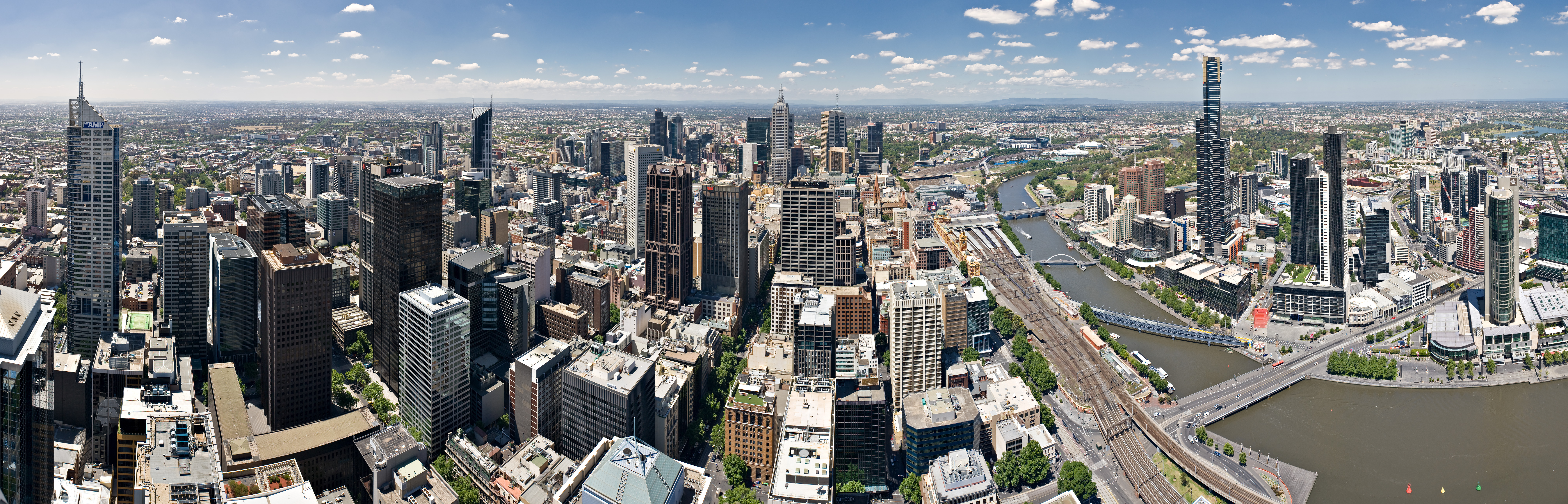 The Melbourne skyline as viewed from the Rialto Observatory on Collins St. This panorama spans facing north (left side) east (centre) to south (right side). Taken as a 2 x 5 segment panorama by myself with a Canon 5D and 17-40mm f/4L lens. This image is a crop of the original as per below.